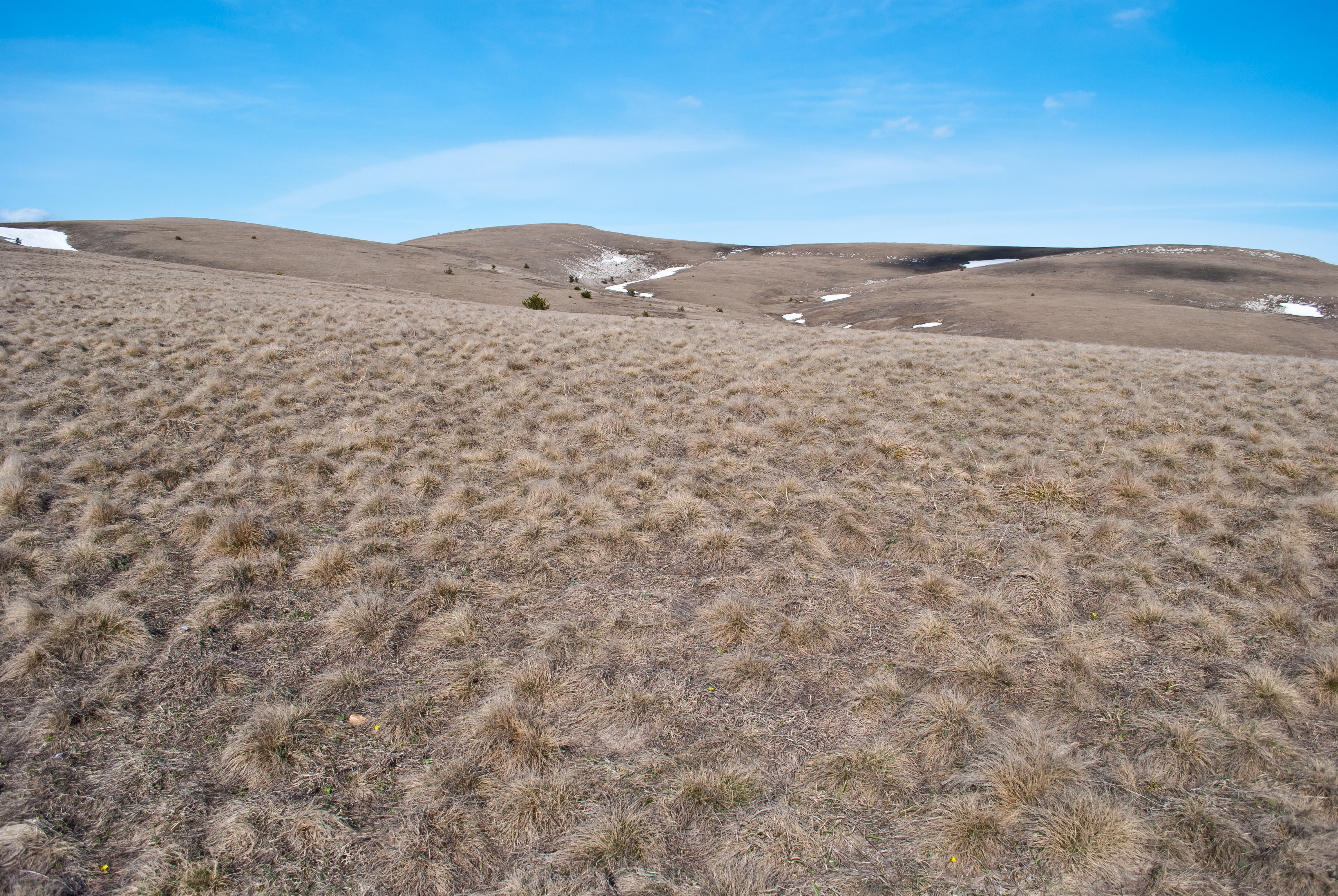 Babugan-Yayla (Crimea)